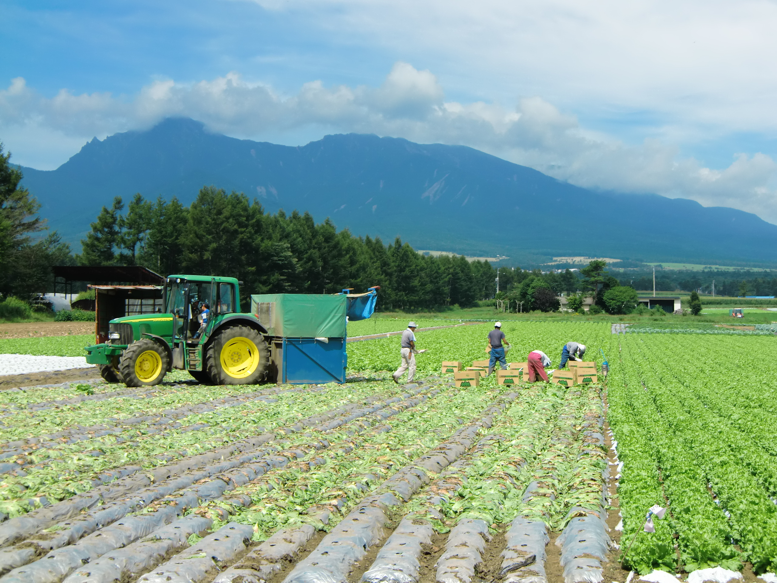 Lettuce harvest in Nobeyama, Minamimaki village, Minami-saku county, Nagano prefecture, Japan.